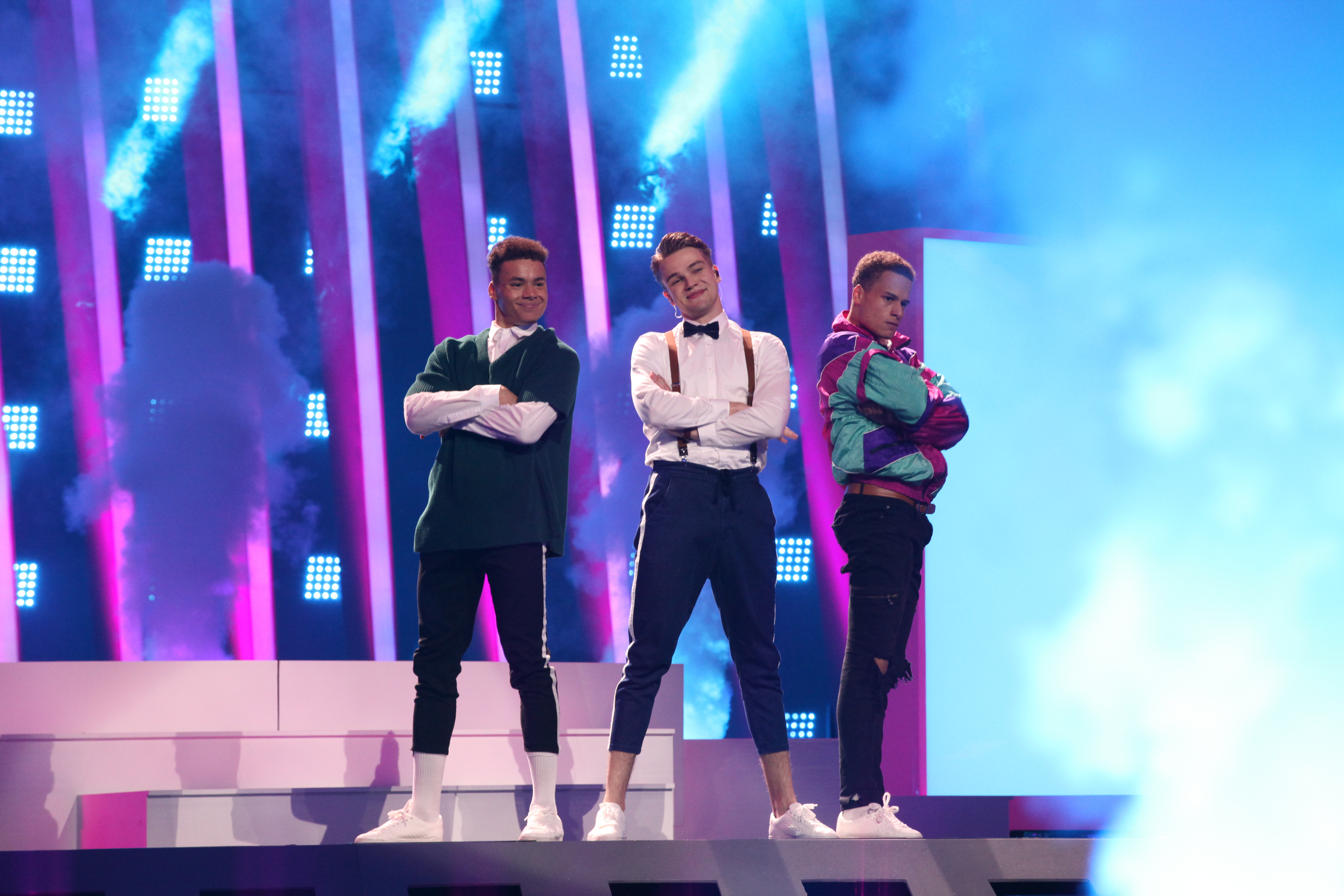 Mikolas Josef representing Czech Republic with the song "Lie to Me" during a rehearsal before the grand final of the Eurovision Song Contest 2018 in Lisbon.